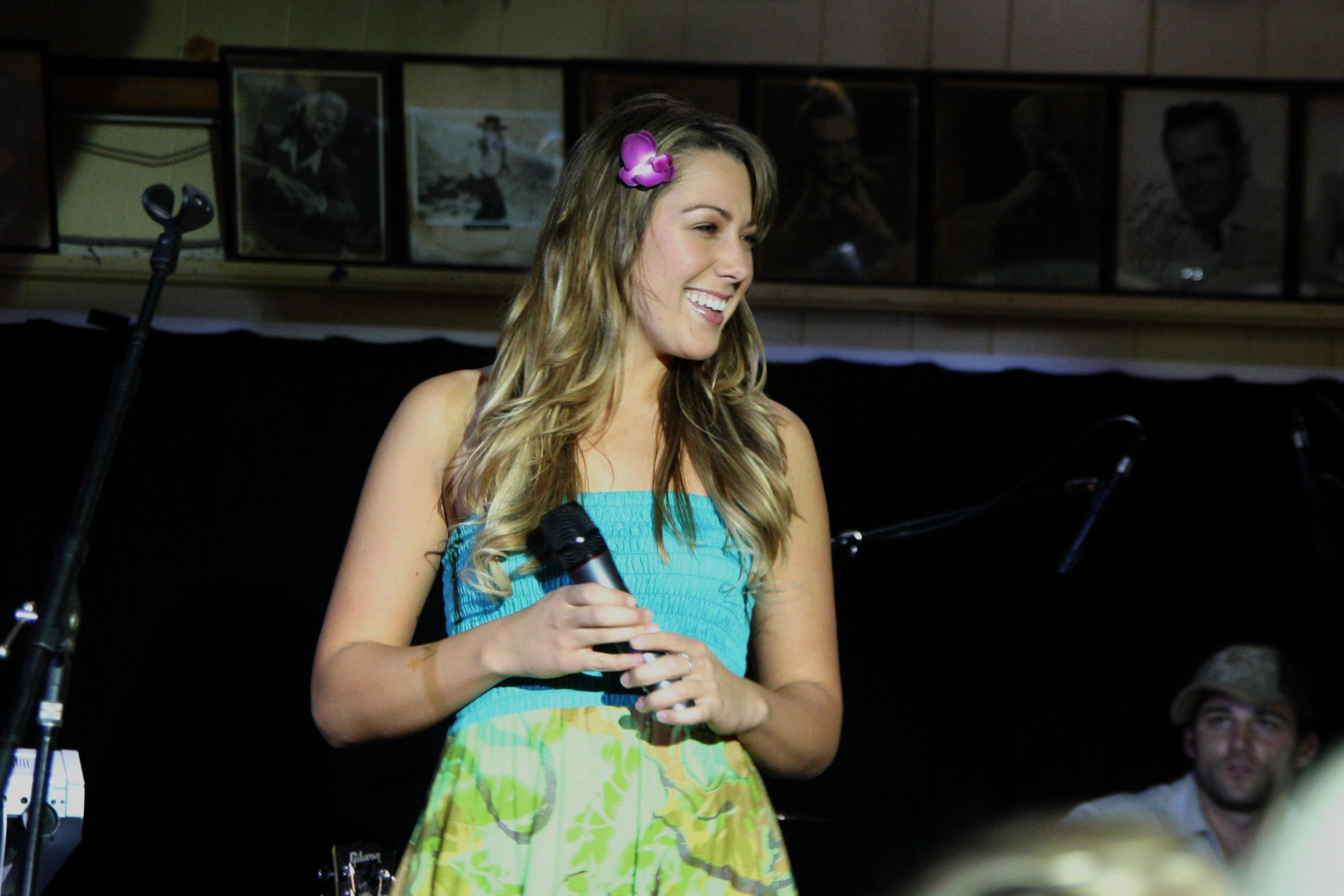 Colbie Caillat @ The Malibu Inn on October 26, 2007 on PCH.